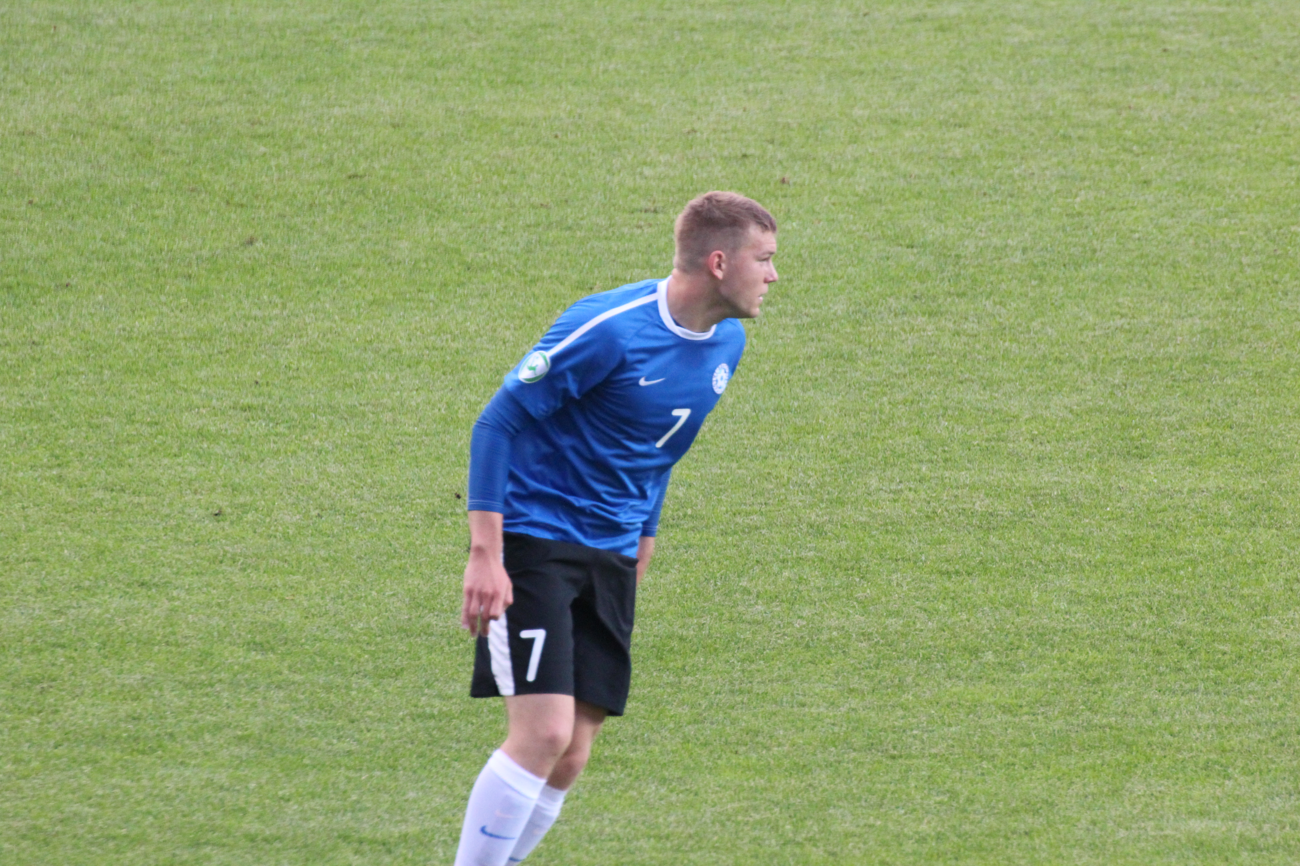 Hannes Anier playing football for Estonia against Portugal